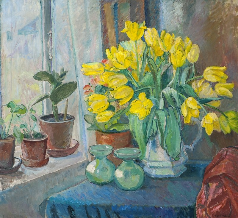 Still Life with yellow Tulips in a Jug